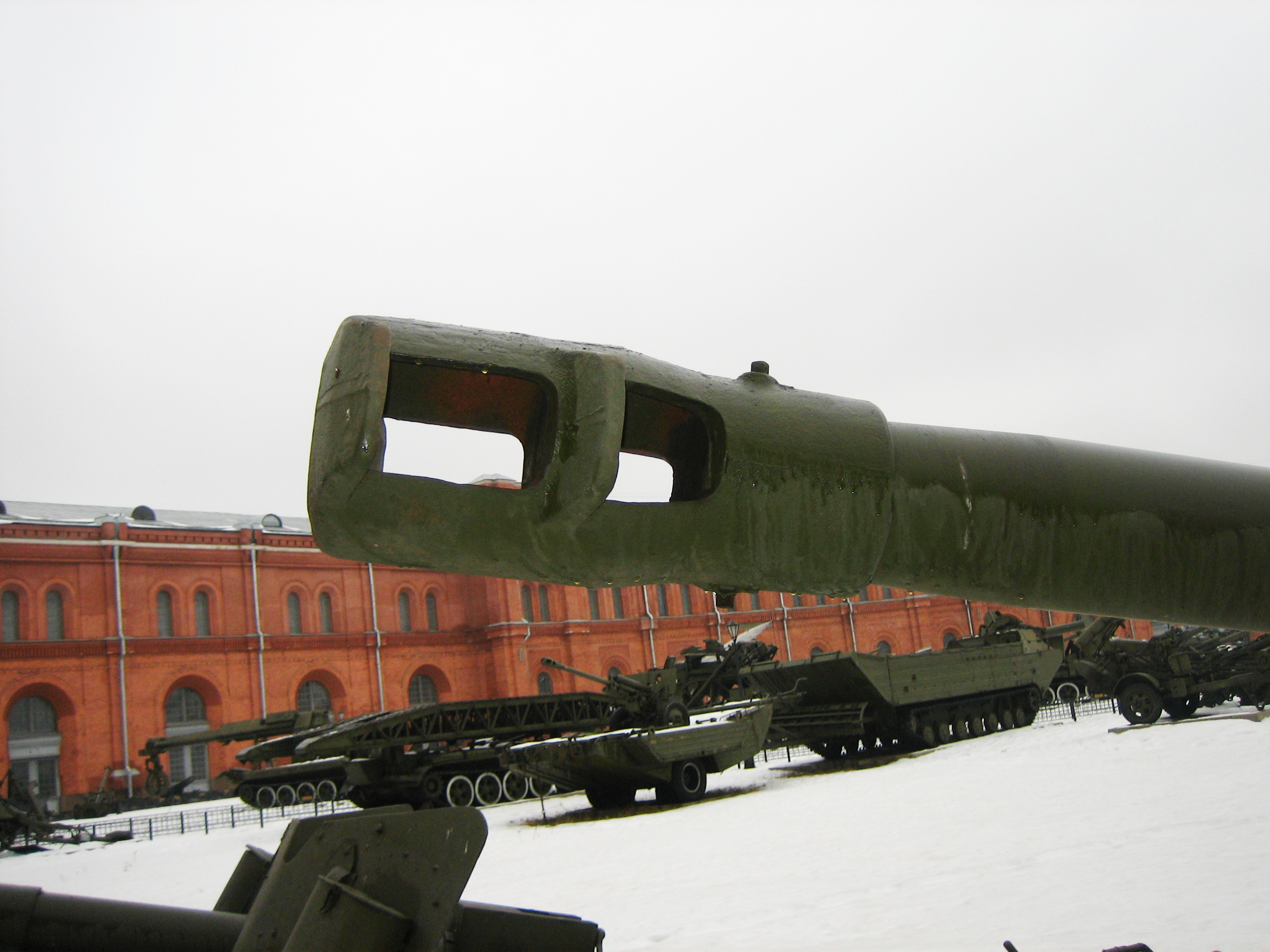 Soviet 152mm mm D-1 Mark 1943 howitzer, displayed in Saint Petersburg Artillery Museum. Photo taken on 3 Marсh, 2007. Source: Photo by me, User:Saiga20K.